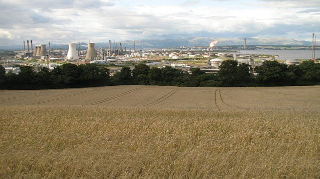 Wheat above Inveravon Wheat ready for harvest with the Grangemouth complex in the background.